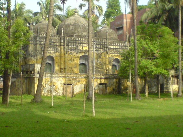 This is Bagh-e Mosque, a very old structural view in the Dhaka university area. Probably the builder of the Mosque was Monwar khan, the son of Musa khan. It was established in A.D. 1679, in the preiod of Saista khan.